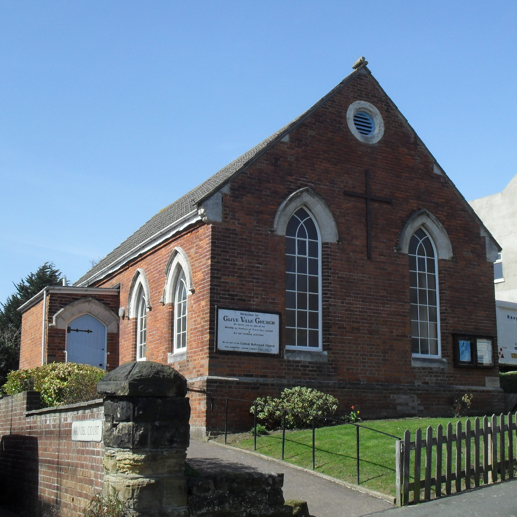 Clive Vale United Reformed Church, Edwin Road, Clive Vale, Hastings, East Sussex, England. Built in 1887 as a Congregational church.